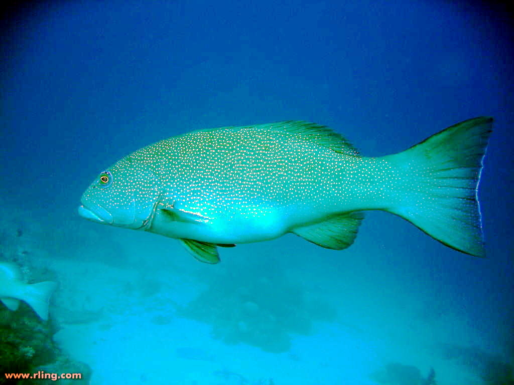 A Coral Trout (Plectropomus leopardus). Pixie Garden, Ribbon Reefs, Great Barrier Reef